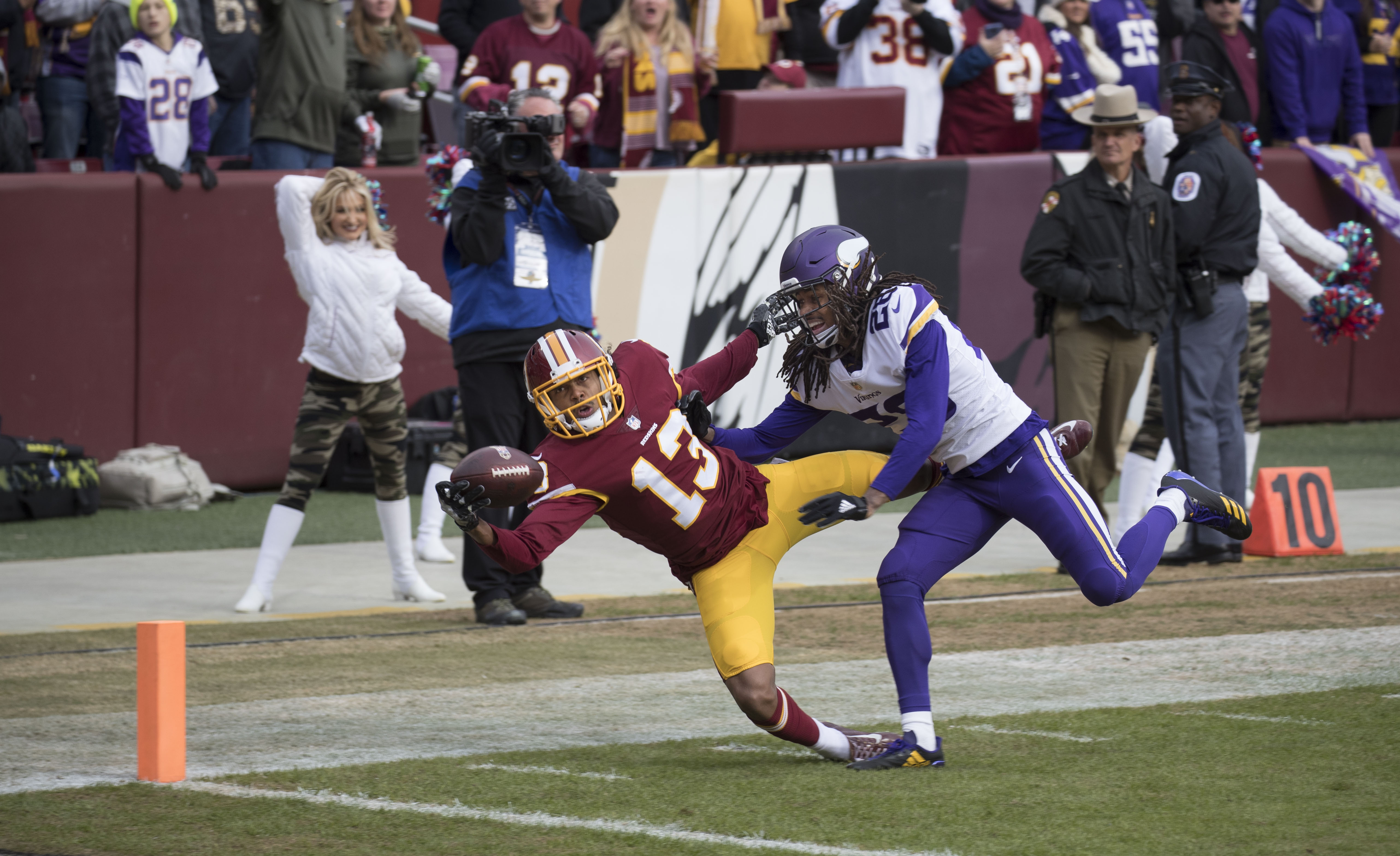 Washington Redskins Maurice Harris catches a touchdown pass while defended by Minnesota Vikings Trae Waynes in a game at FedExField on November 12, 2017 in Landover, Maryland.